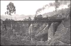 Loolecondera railway, Sri Lanka